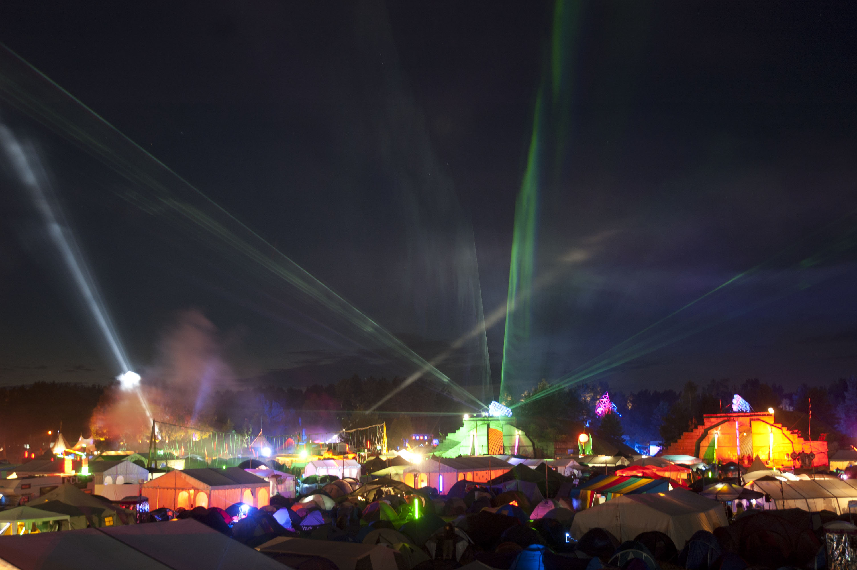 Chaos Communication Camp 2011 laser show